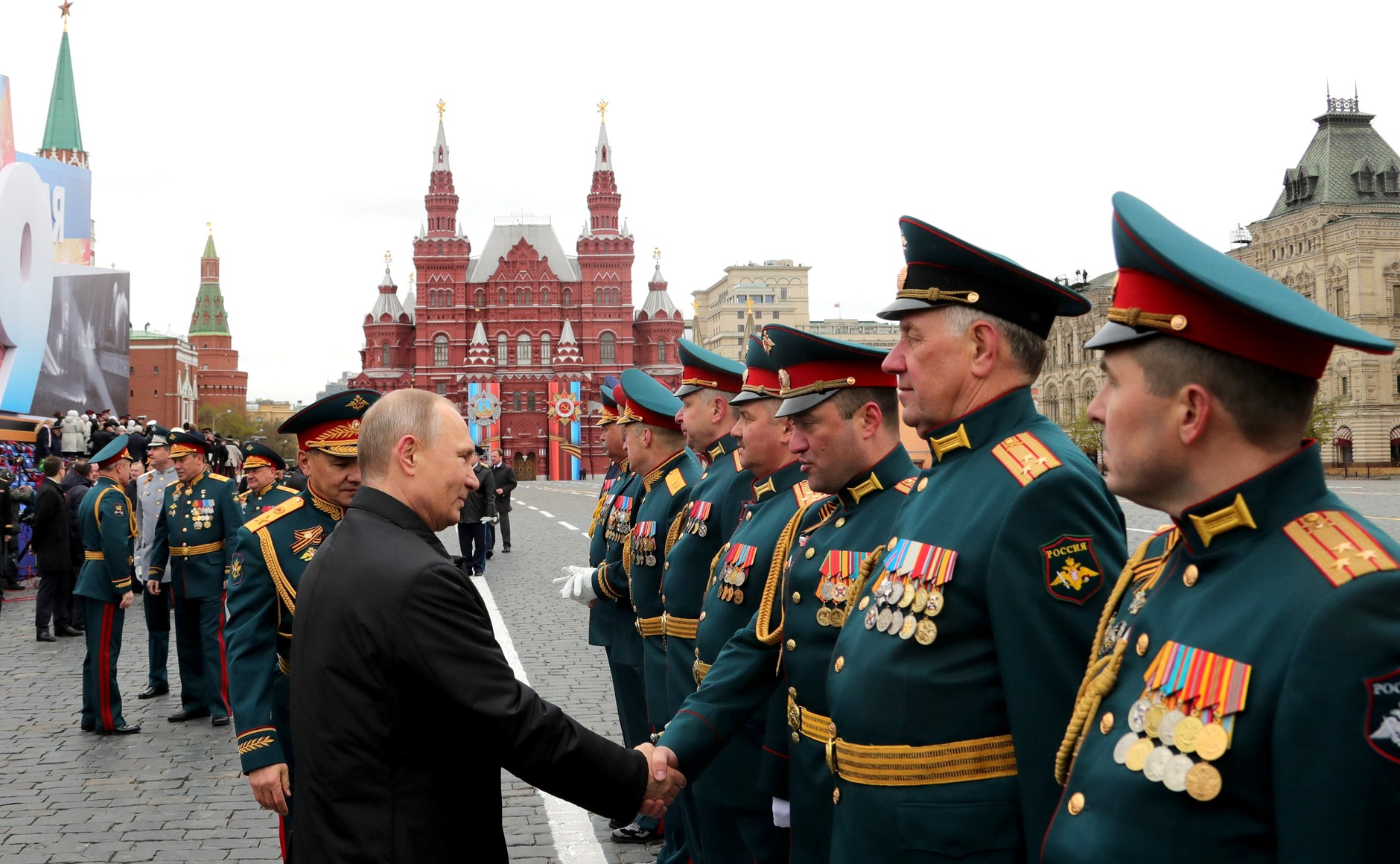 Military parade on Red Square 2017-05-09